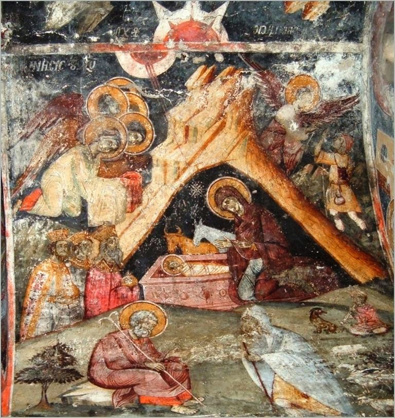 Nativity Fresco Saint Germanus Church